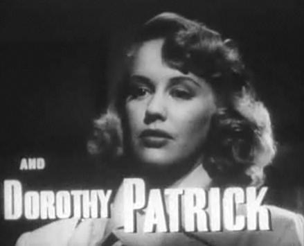 Dorothy Patrick in the film Follow Me Quietly (1949) - trailer (cropped screenshot)